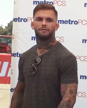 Cody Garbrandt posing for a photo